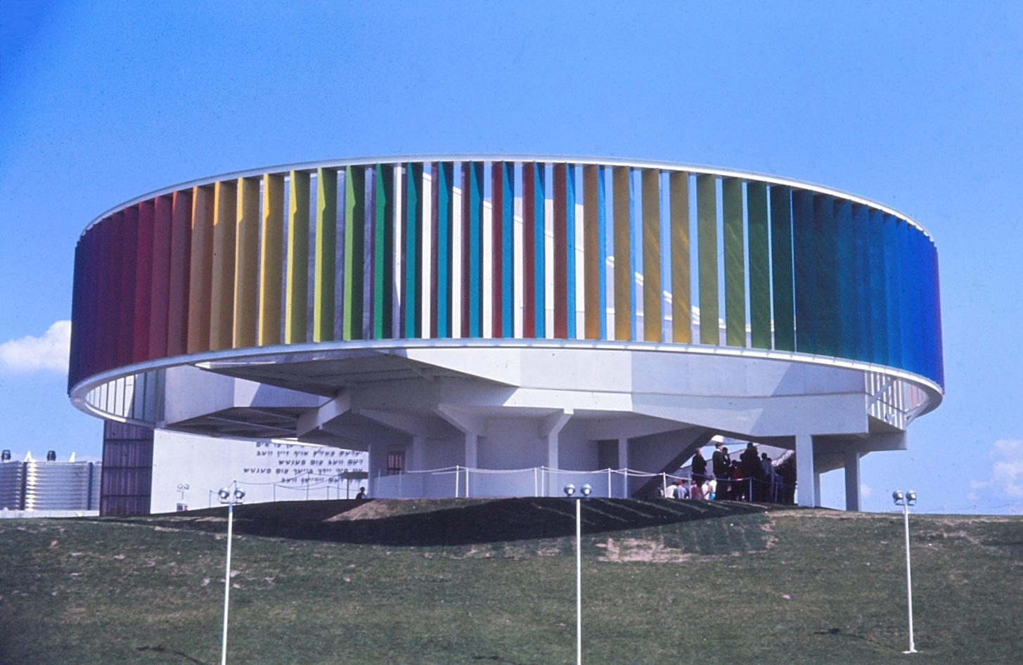 The Kaleidoscope, on Notre-Dame Island. Expo 67, Montréal, Québec, Canada.